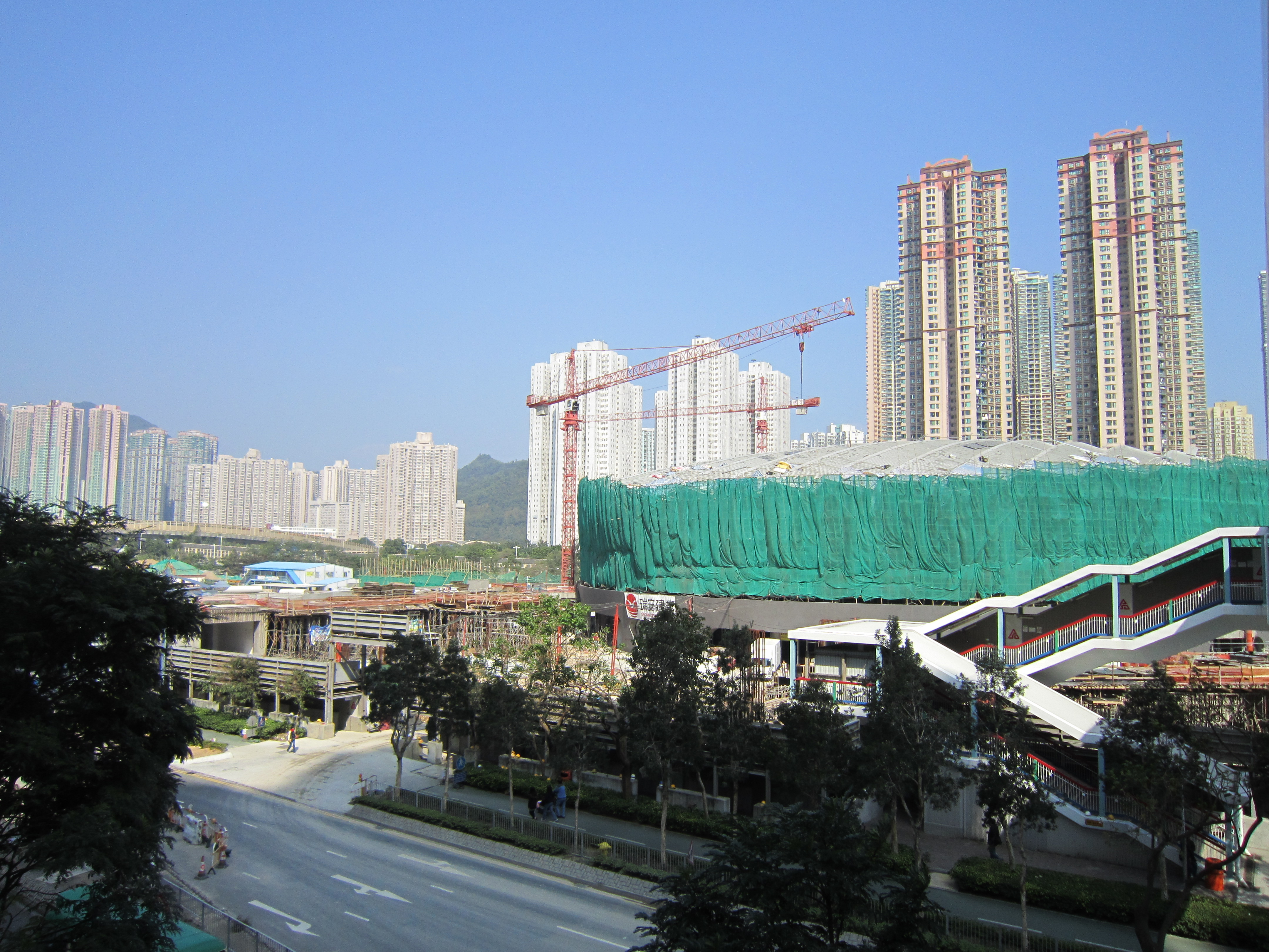 Tseung Kwan O Indoor Velodrome cum Sports Centre